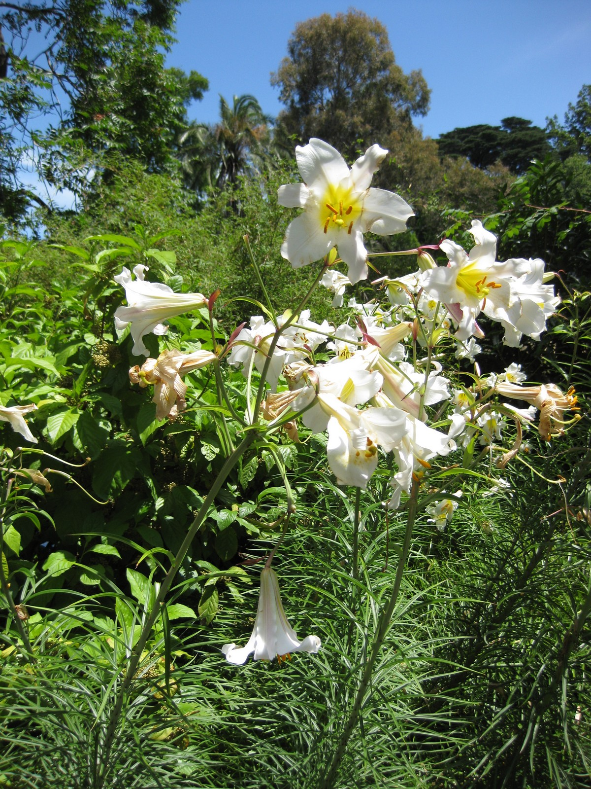 Photographed at the Royal Botanic Gardens Melbourne (Australia) in December